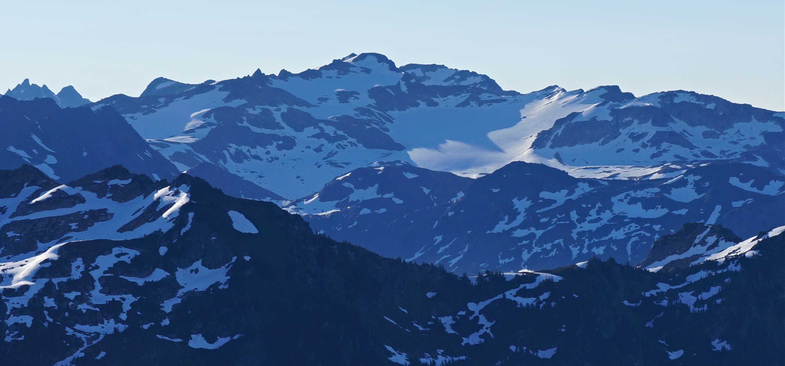 Kololo Peaks seen from Painted Mountain in Glacier Peak Wilderness of WA state